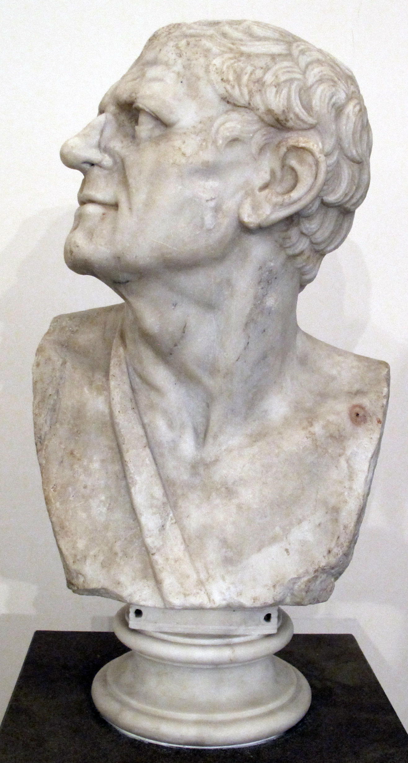 Marble bust of Lysimachus. Naples, Museo Archeologico Nazionale di Napoli (Archaeological Museum), Italy.